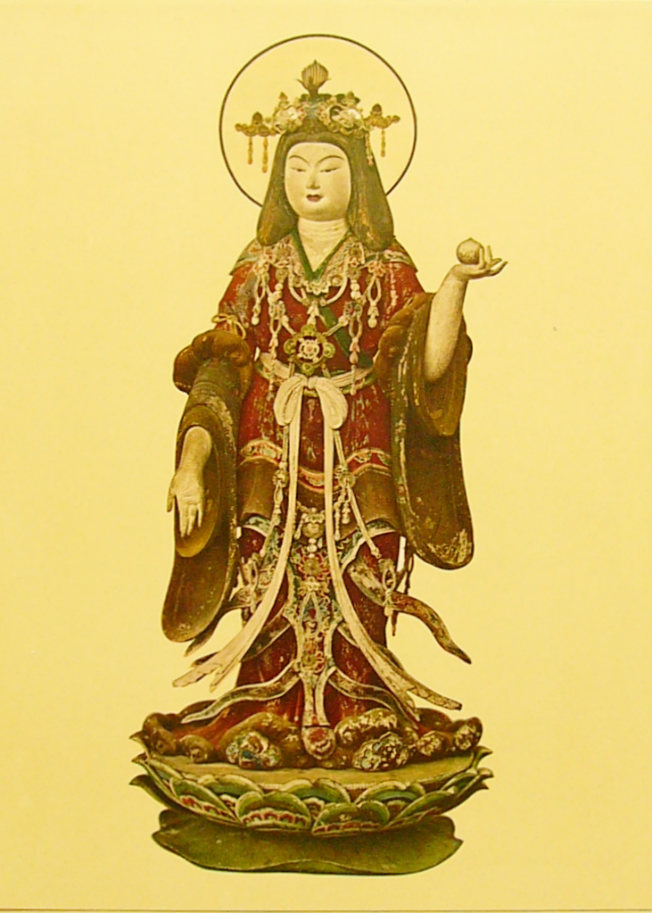 Srii-mahadeii, Wood coloured, about 90cm BODY height, ACE1212, JYORURI Temple, Kyoto, Japan